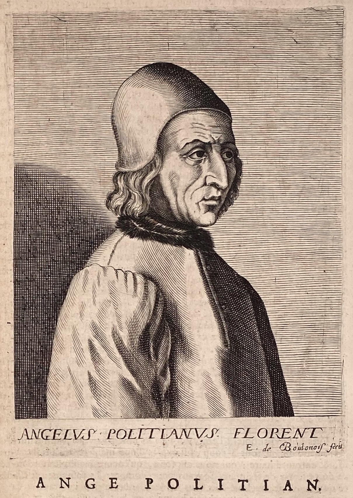 Half-length portrait of Rodolphus Agricola, Greek, Latin, and Hebrew scholar, engraved on a copperplate by Esme de Boulonois; from the book Académie Des Sciences Et Des Arts by Isaac Bullart, published in Amsterdam by Elzevier in 1682.